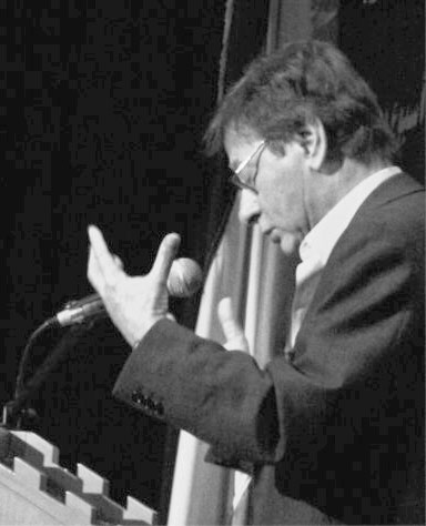 Mahmoud Darwish at university of betlehem.